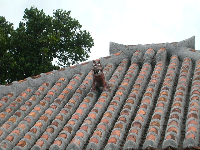 Shisa on the roof, at Taketomi island, Okinawa, Japan